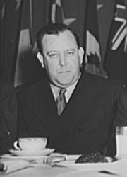 Norwegian foreign minister, Trygve Lie; Russian ambassador Maxim Litvinov; and Vice-President Henry A. Wallace at luncheon of dehydrated food commemorating second anniversary of lend-lease, held March 11, 1943, at Hotel Statler, Washington, D.C.